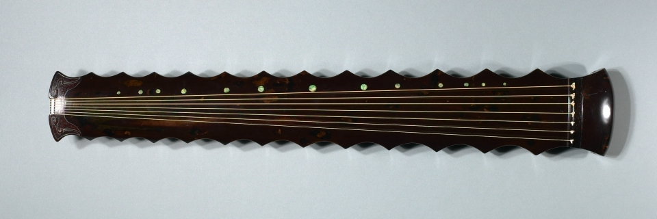 Picture of a guqin in Luoxia form